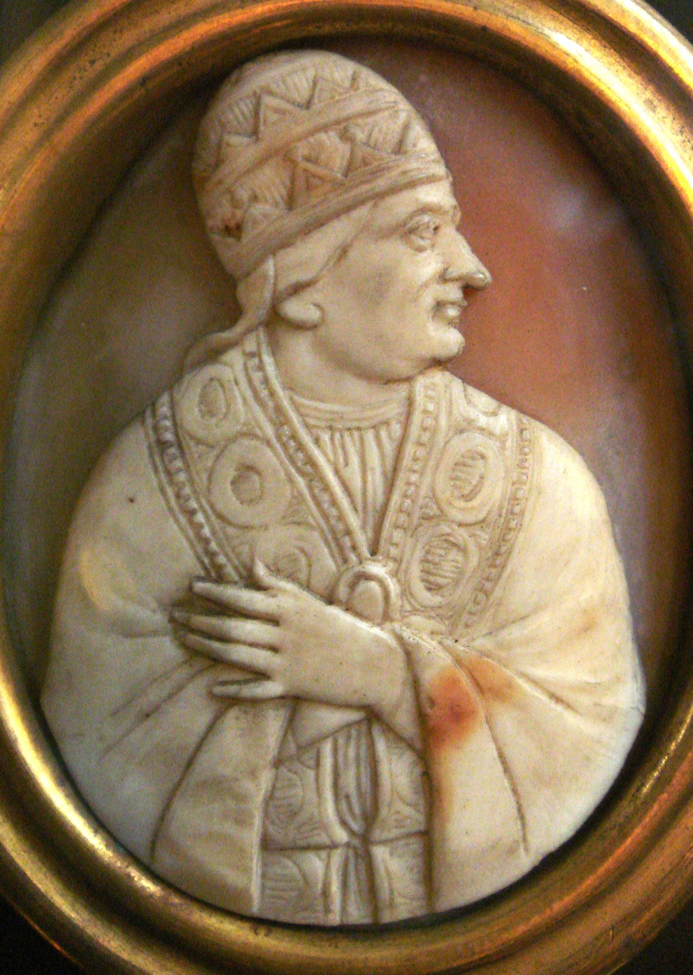 Cameo representing Pope Gregory X. Photographed inside Notre Dame in Paris.